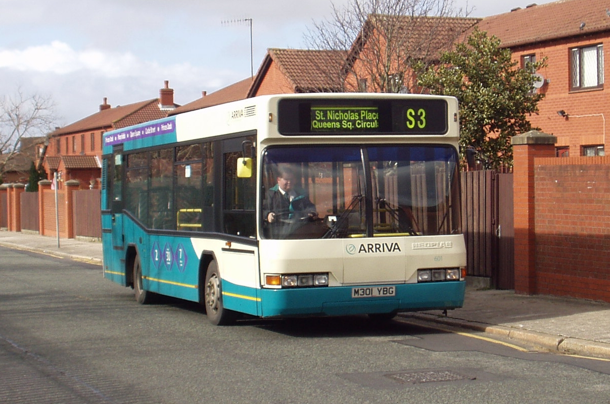 Neoplan N4009 bus, Arriva North West no. 0601